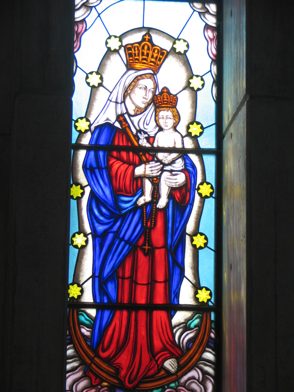 Basilica Minor National Sanctuary of Our Lady of Coromoto 3